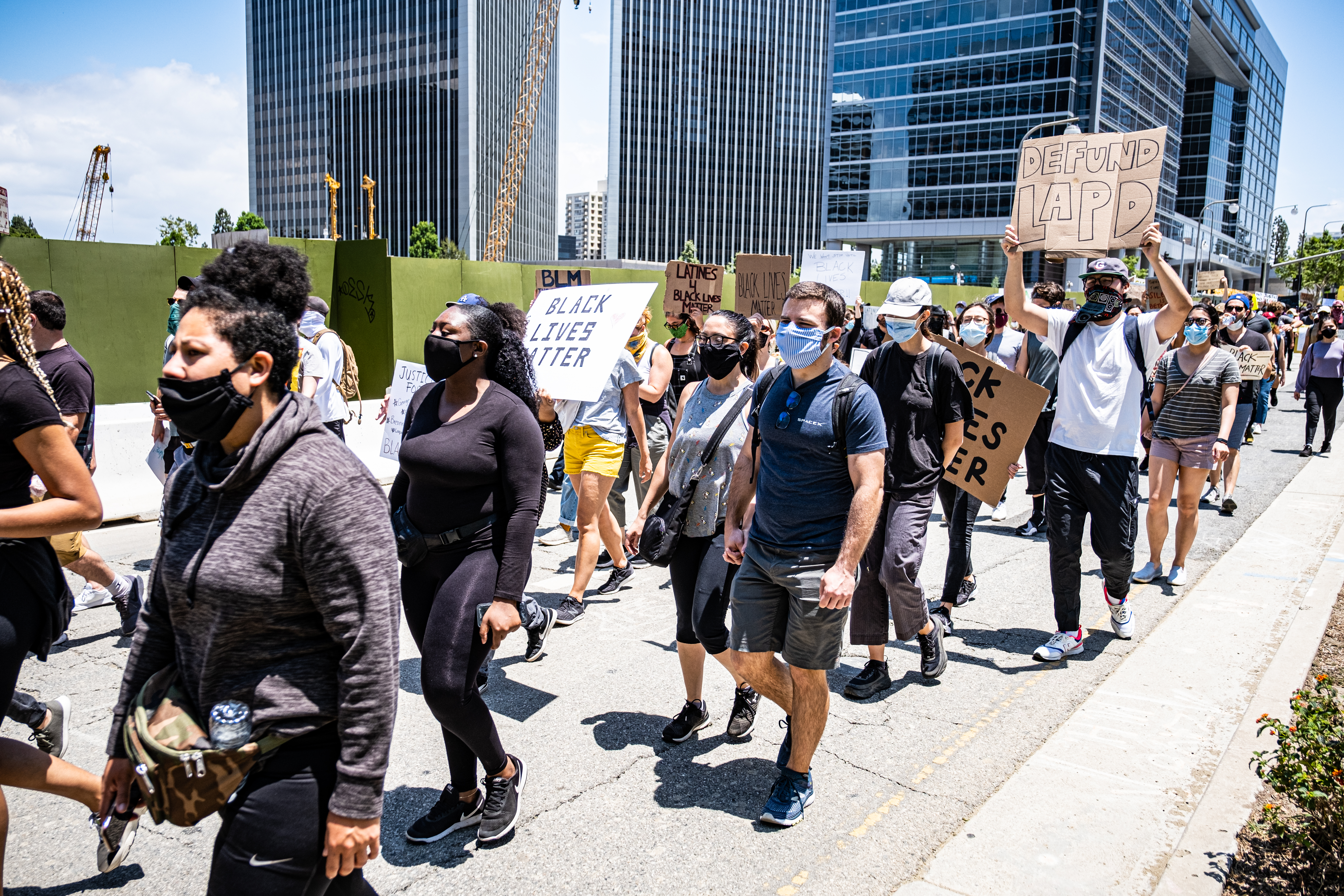 Black Lives Matter - Century City Protest - June 6, 2020